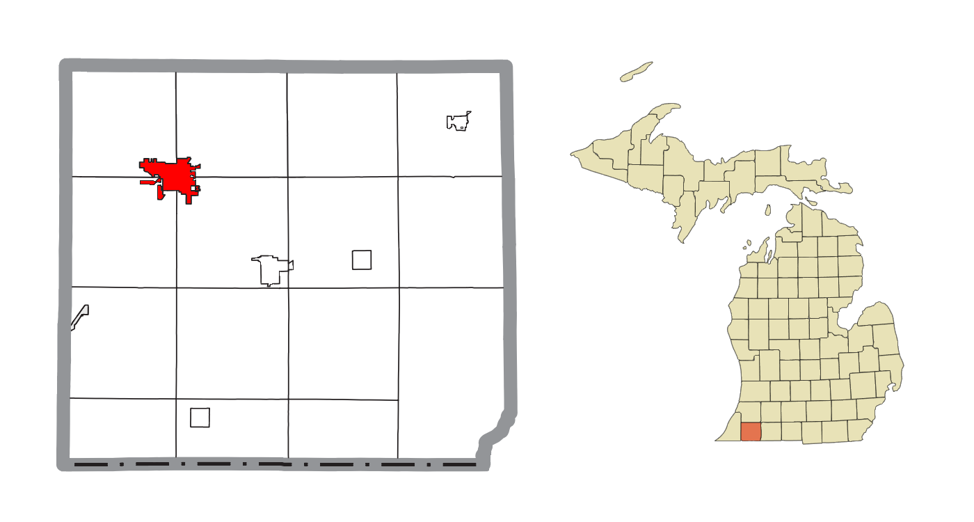 Dowagiac, MI